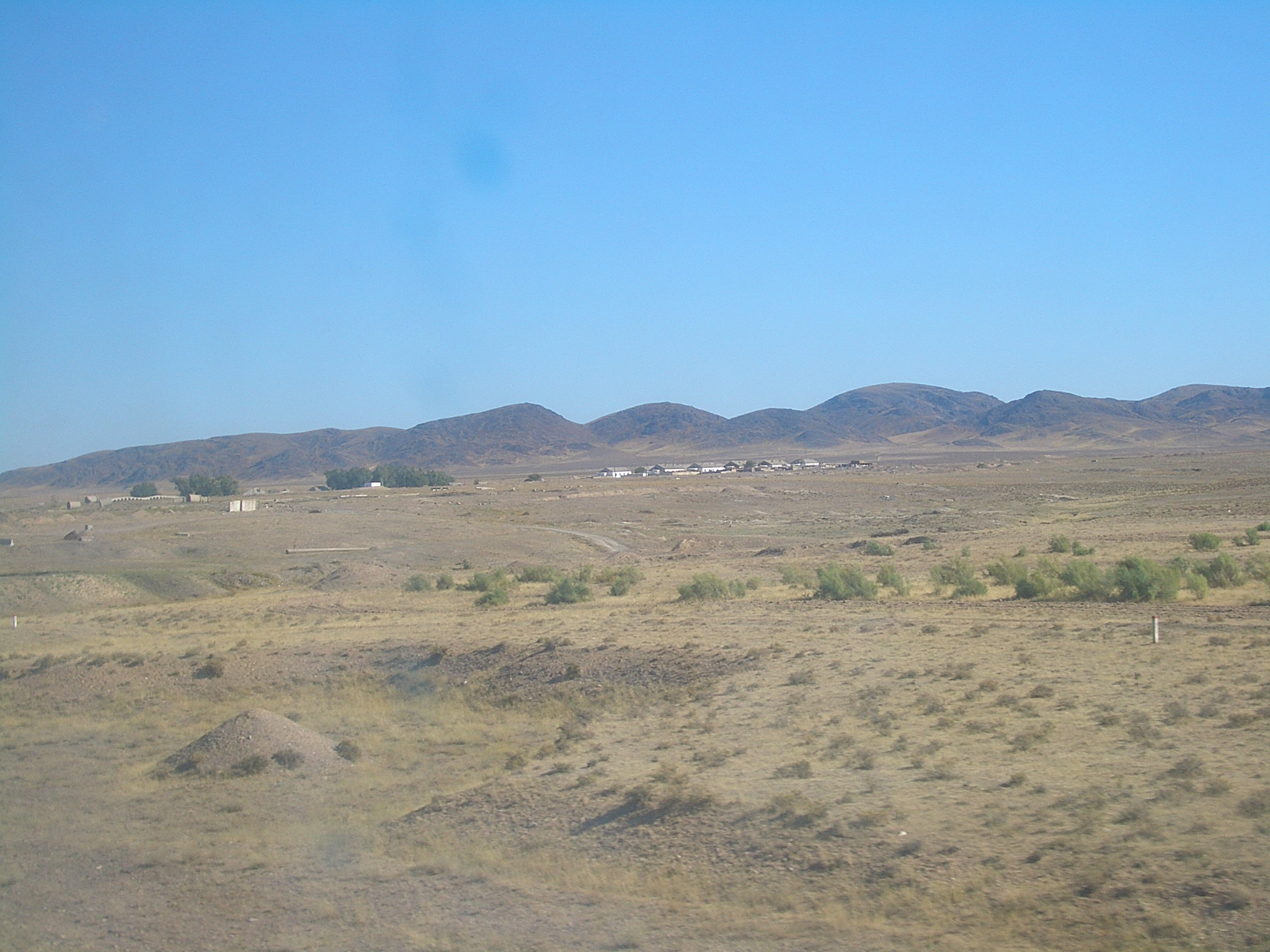 In the steppe north of Shu, Zhambyl Province. (Seen from a train).